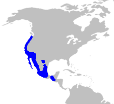 Plant family Themidaceae − Brodiaeoideae distribution map. In the order Asparagaceae.